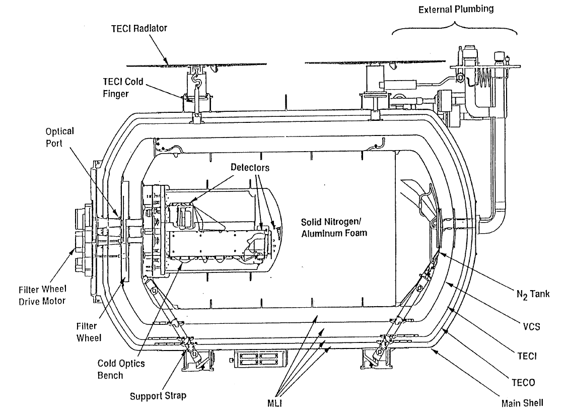 NICMOS dewar